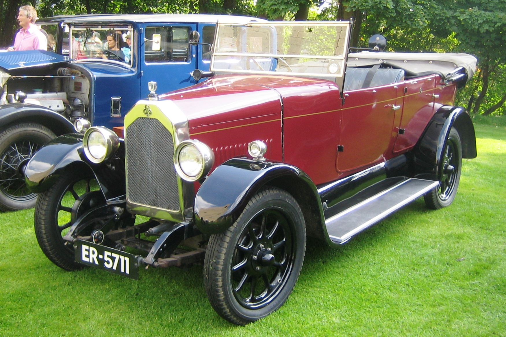 1926 Torpedo type Swift.